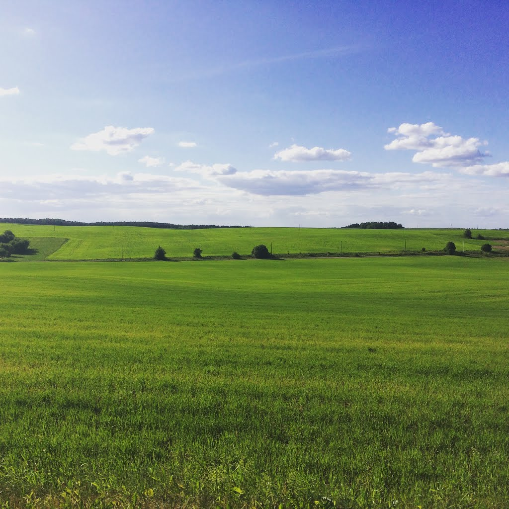 Dorgun landscape